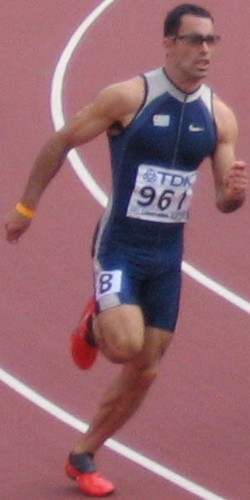 A 200 metres run at the 2005 Athletics World Championships in Helsinki. qualifications - heat 1 (-2.5m/s): 8 lan- 961 Viera Heber URU 21.71